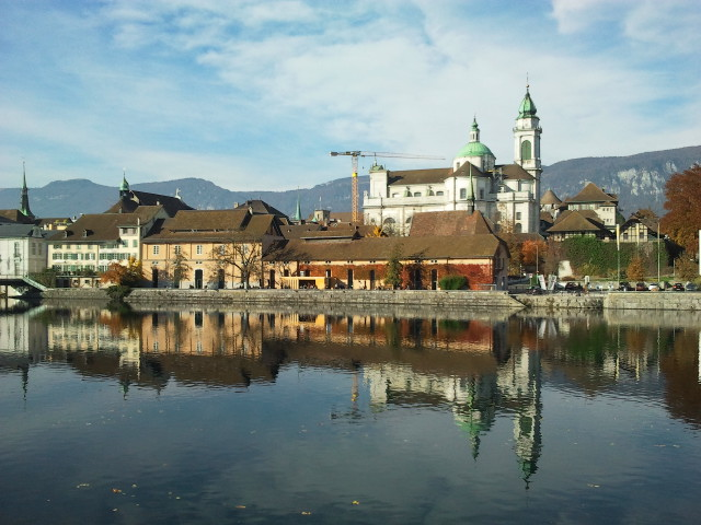 St. Ursen cathedral on the Aare.